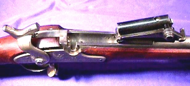 M1866 Rifle, Allin Conversion SPAR994 M1866 Rifle, Allin Conversion .50 caliber. 1866. 25,000 made. In 1866 the Allin system was refined and simplified. The second of the 'Trapdoor' series, this model featured a new rifled liner in a Model 1863 musket, reducing the caliber to .50.